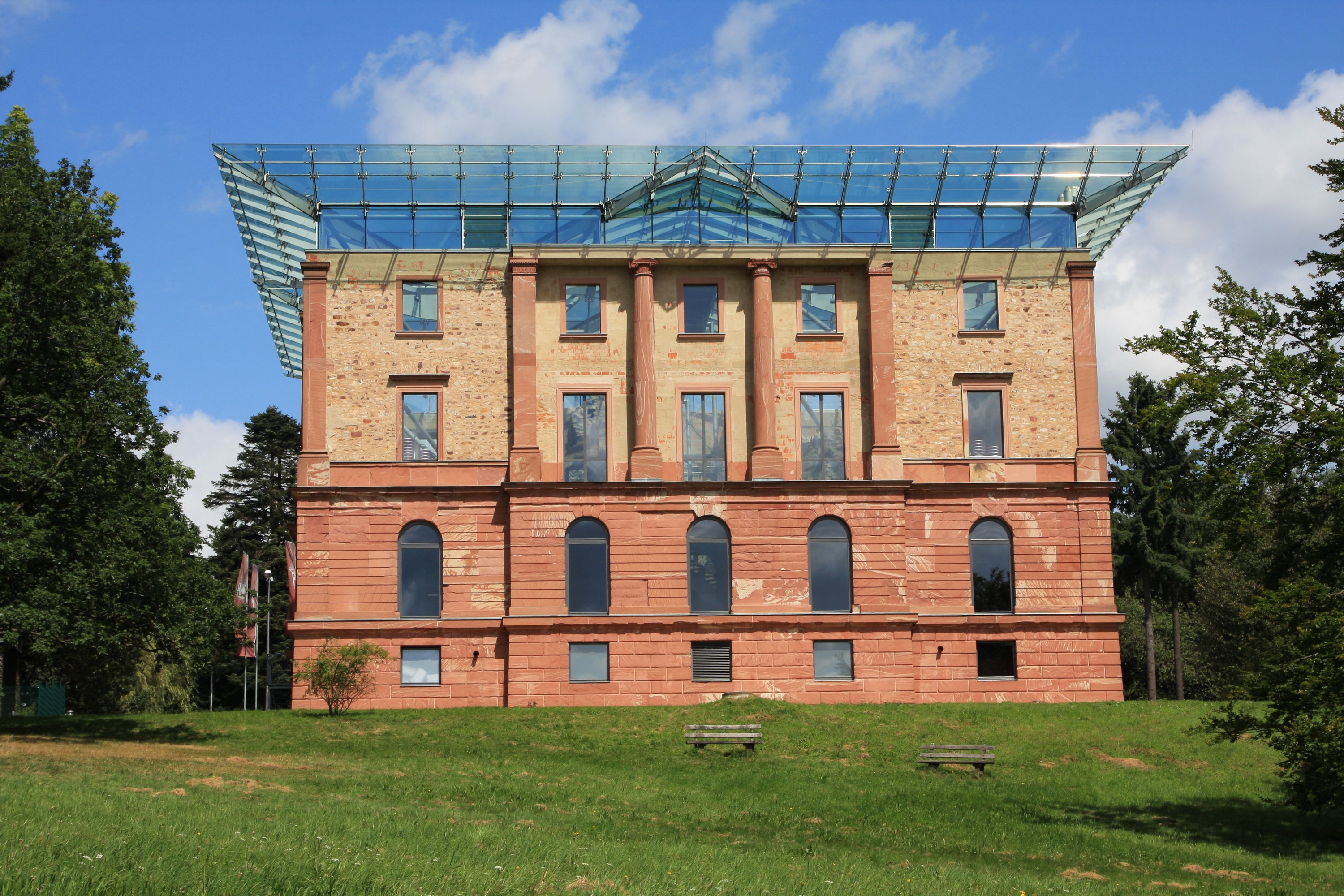 Jagdschloss Platte